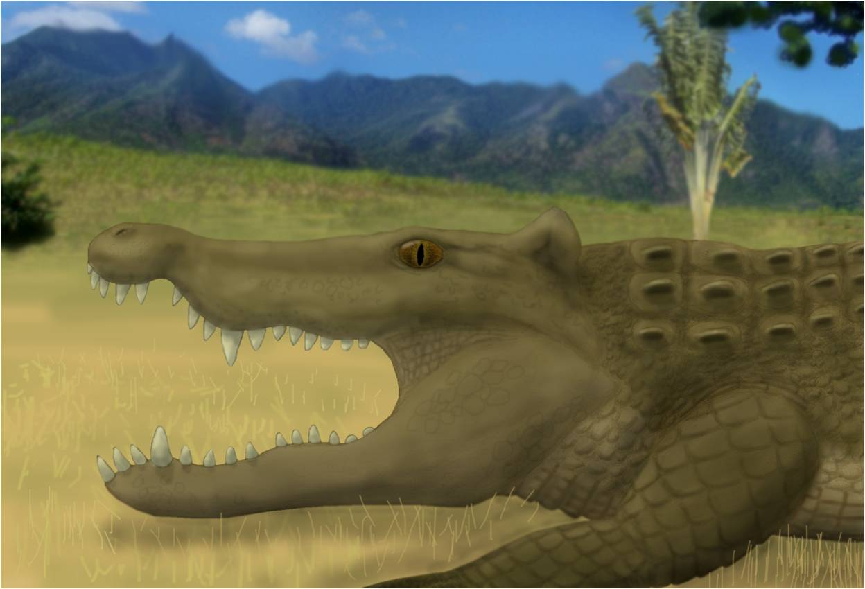 Life restoration of Voay robustus.